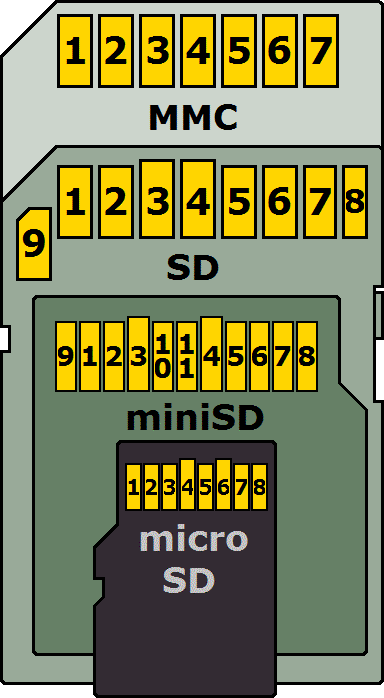 Drawing of bottom-side of MMC, SD, miniSD, microSD cards with official pinout and card names. This shows the evolution from the older MMC, on which SD is based. Drawing by Steve Meirowsky on January 17, 2013.